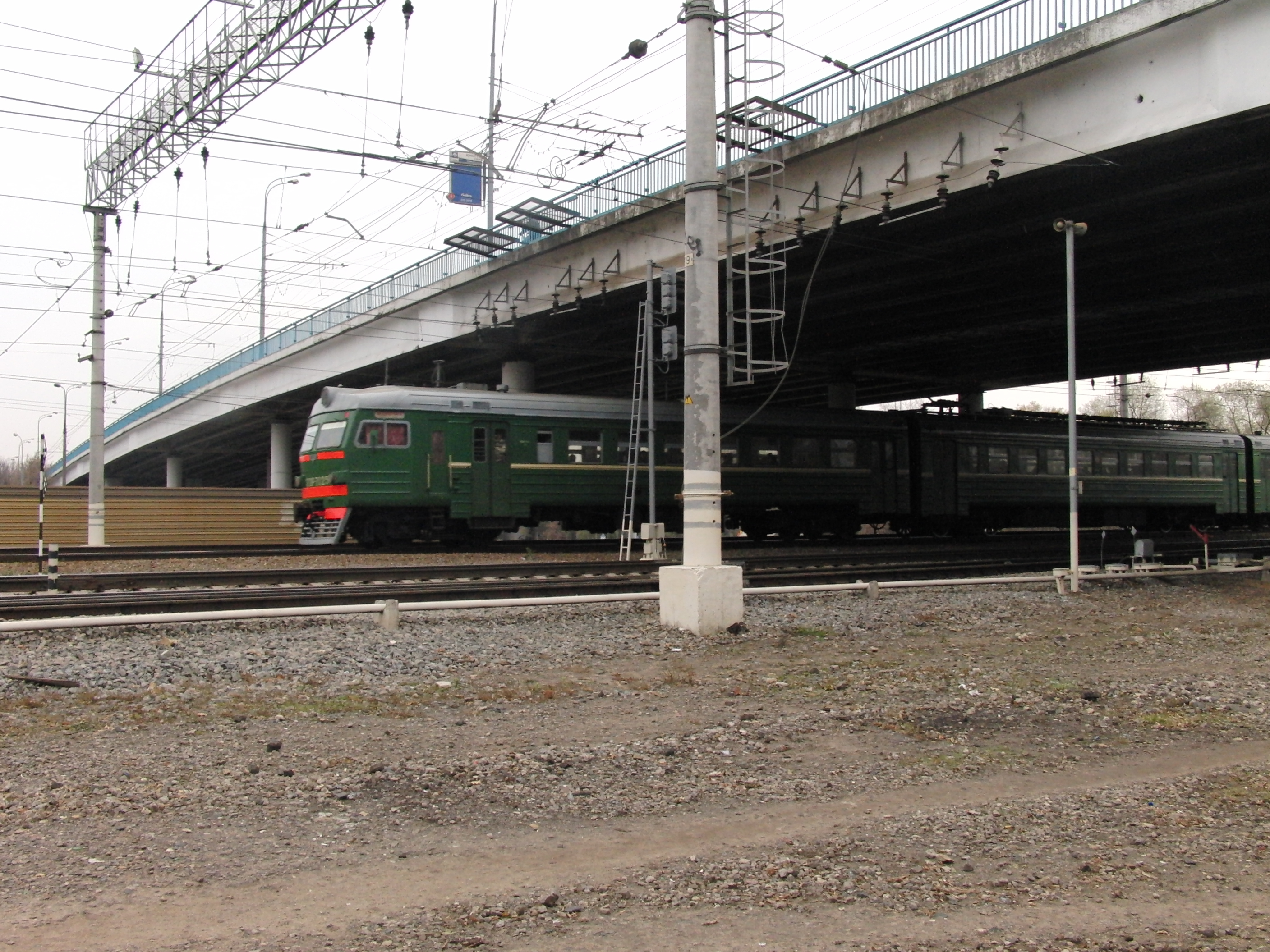 Novogireevo station, elektrichka (local train)